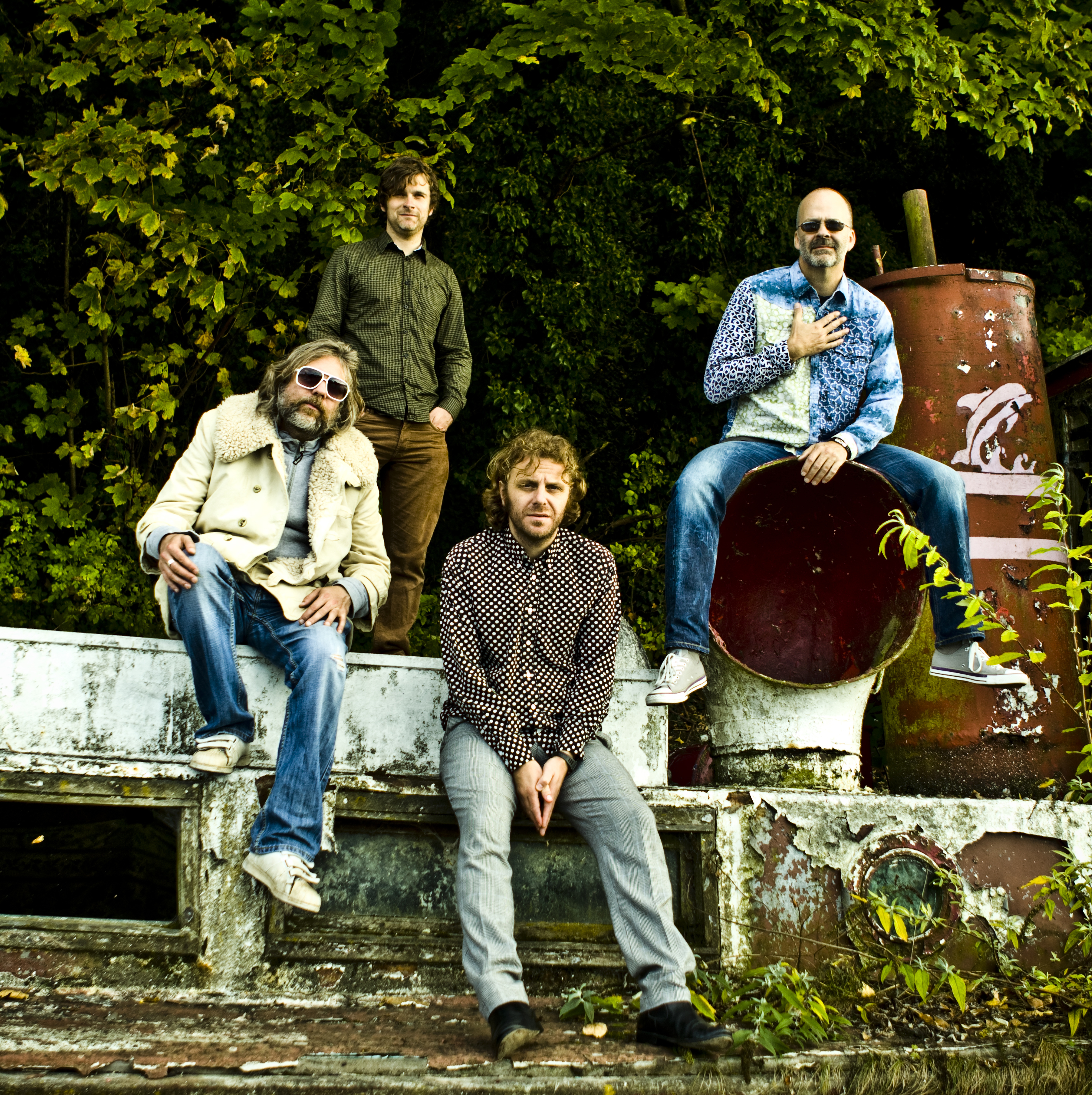 The Band members of Howl Griff, photographed on a decayed boat near to Sunbury on Thames, on Sunday 25 September 2011